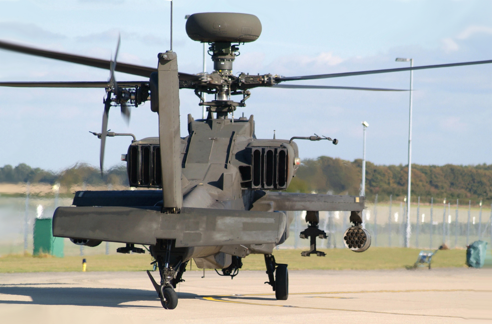 Rearview of WAH-64 Apache preparing for takeoff, the narrowness of the Apache's body is apparent in this image